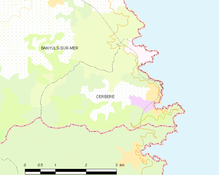 Map of French municipality